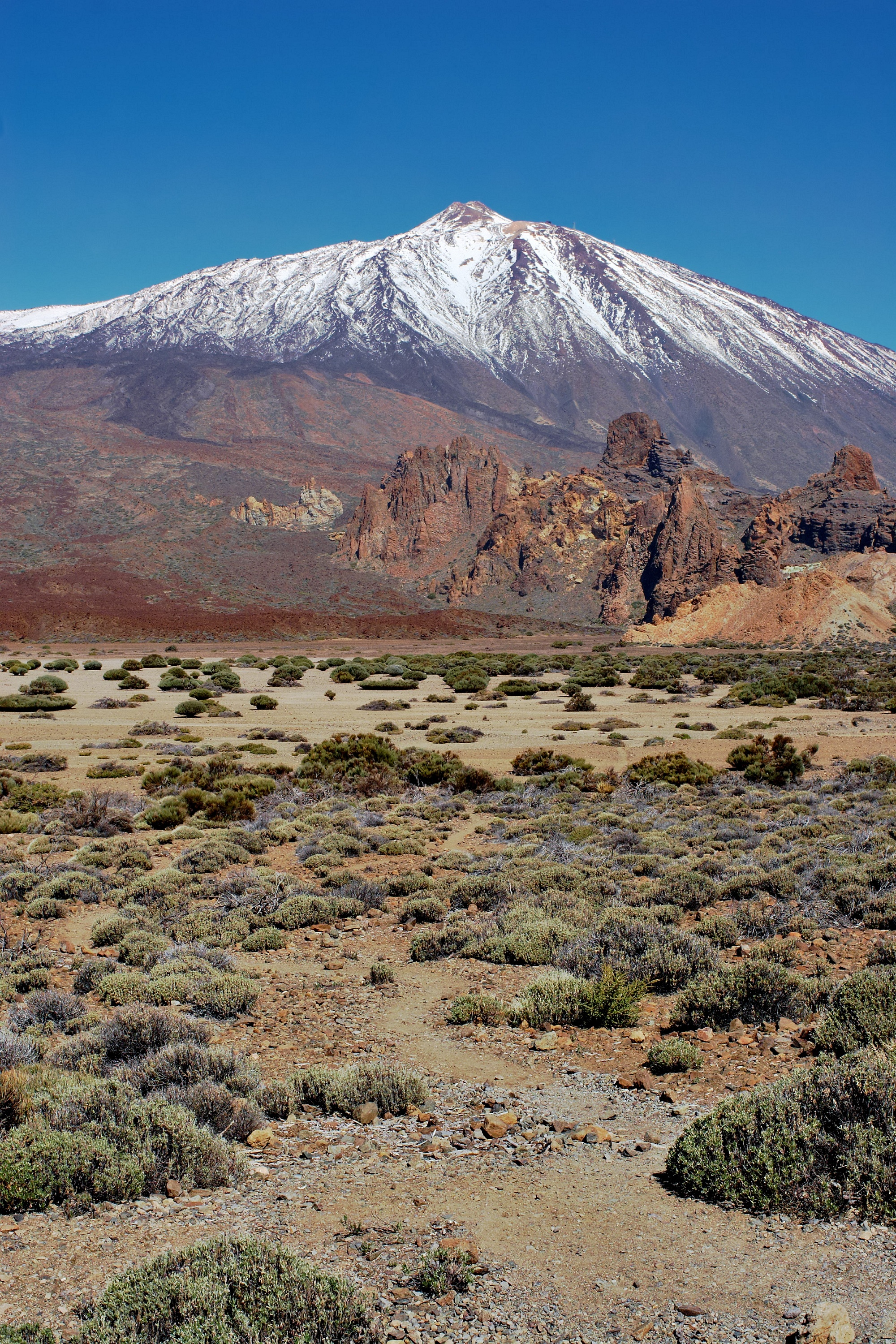 Pico del Teide, view from south